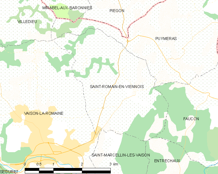 Map of French municipality Saint-Romain-en-Viennois